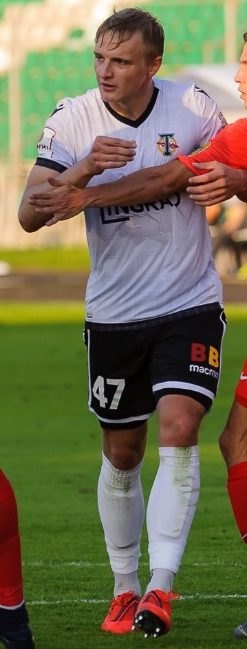 Sergei Bozhin with FC Torpedo Moscow in a game against FC Yenisey Krasnoyarsk.